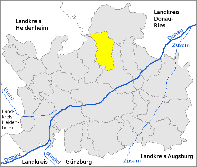 Lutzingen in the district of Dillingen